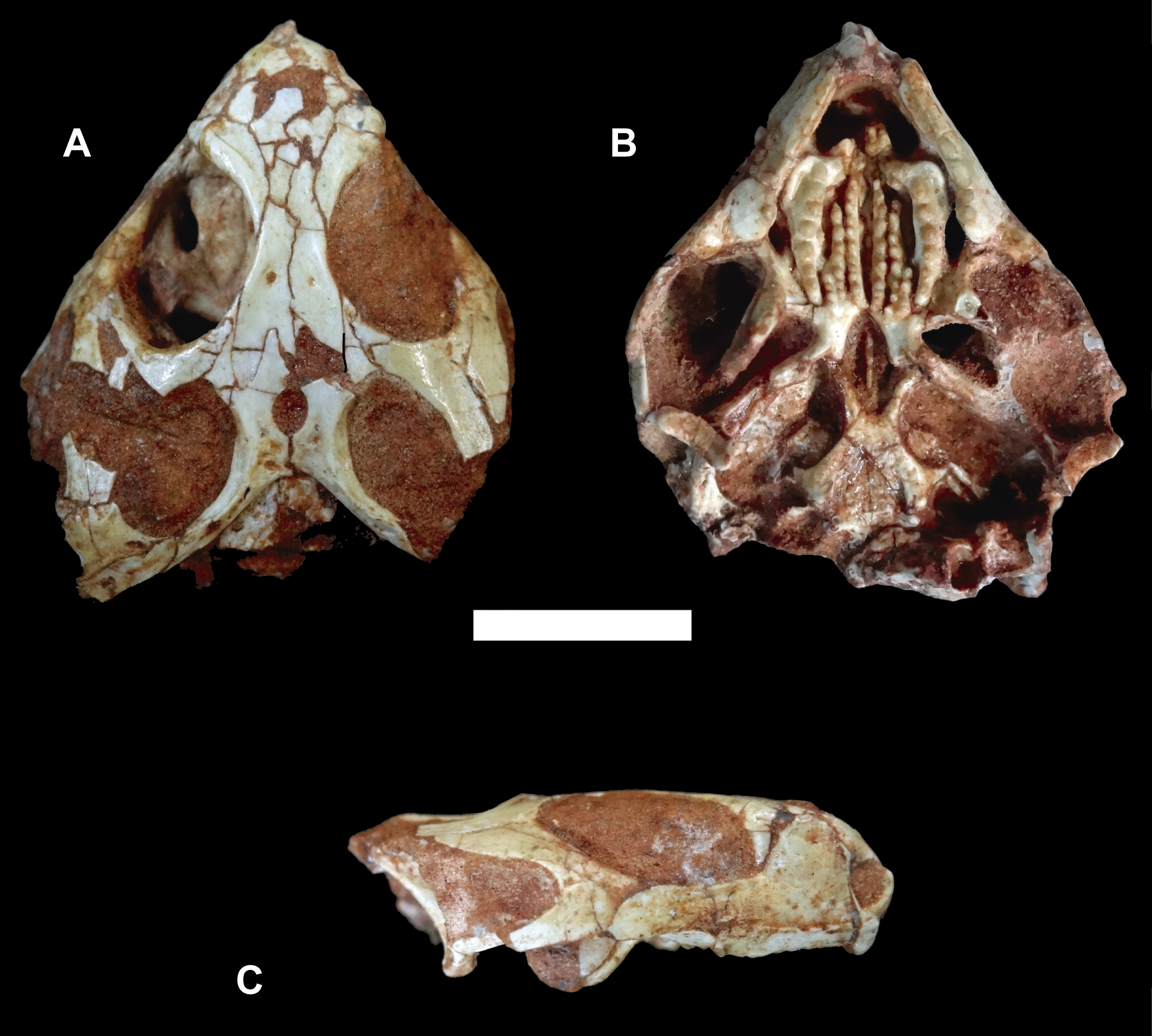 Clevosaurus brasiliensis Bonaparte and Sues, 2006; MCN-PV 2852, skull. Photographs (A-C) in dorsal (A), palatal (B), and lateral (C) views. Scale bar equals 5 mm.